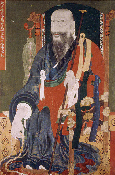 Portrait of Yujeong(a.k.a Samyeongdang)